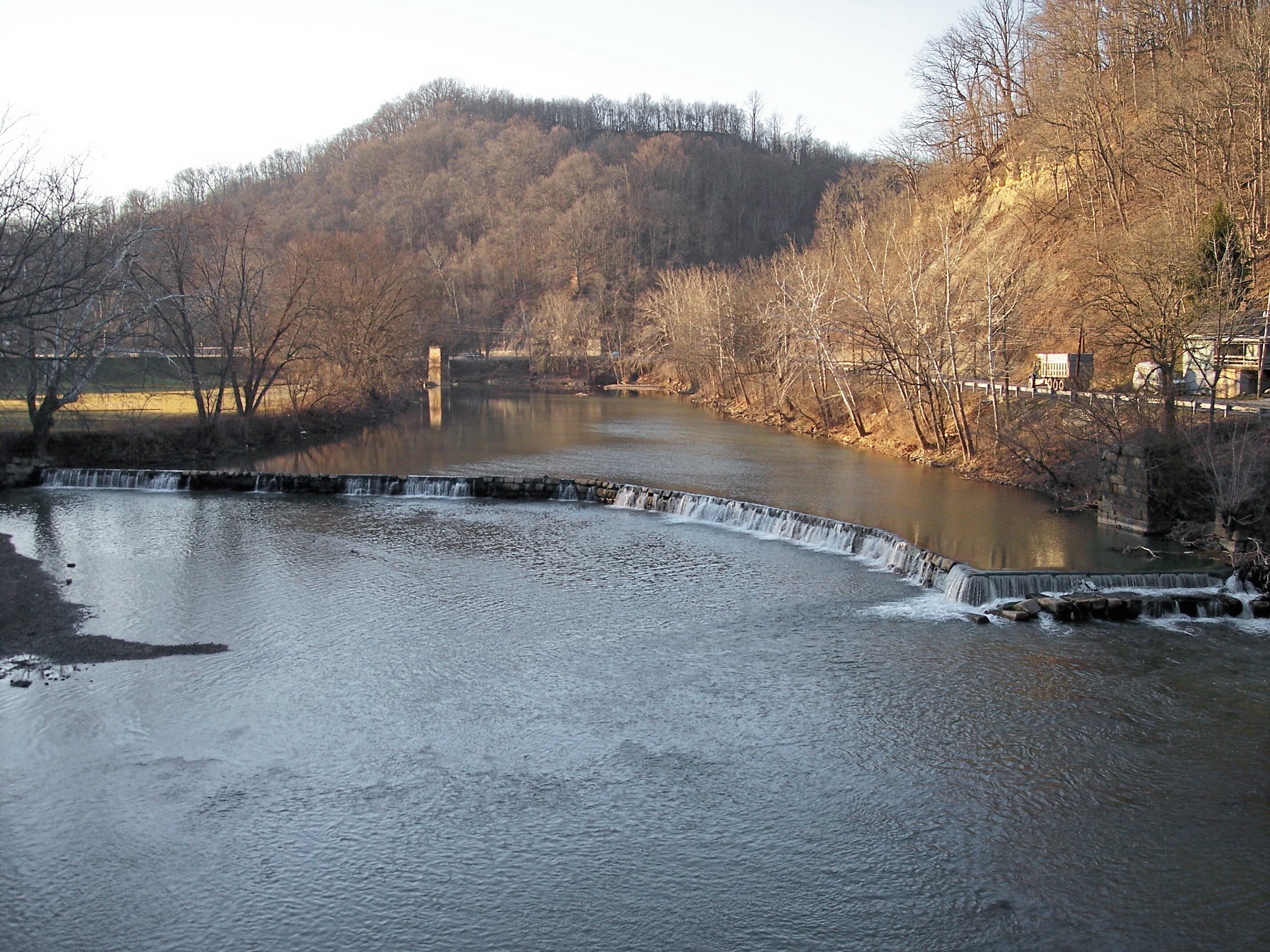 The West Fork River as viewed upstream from Hutchinson Road in Worthington, West Virginia